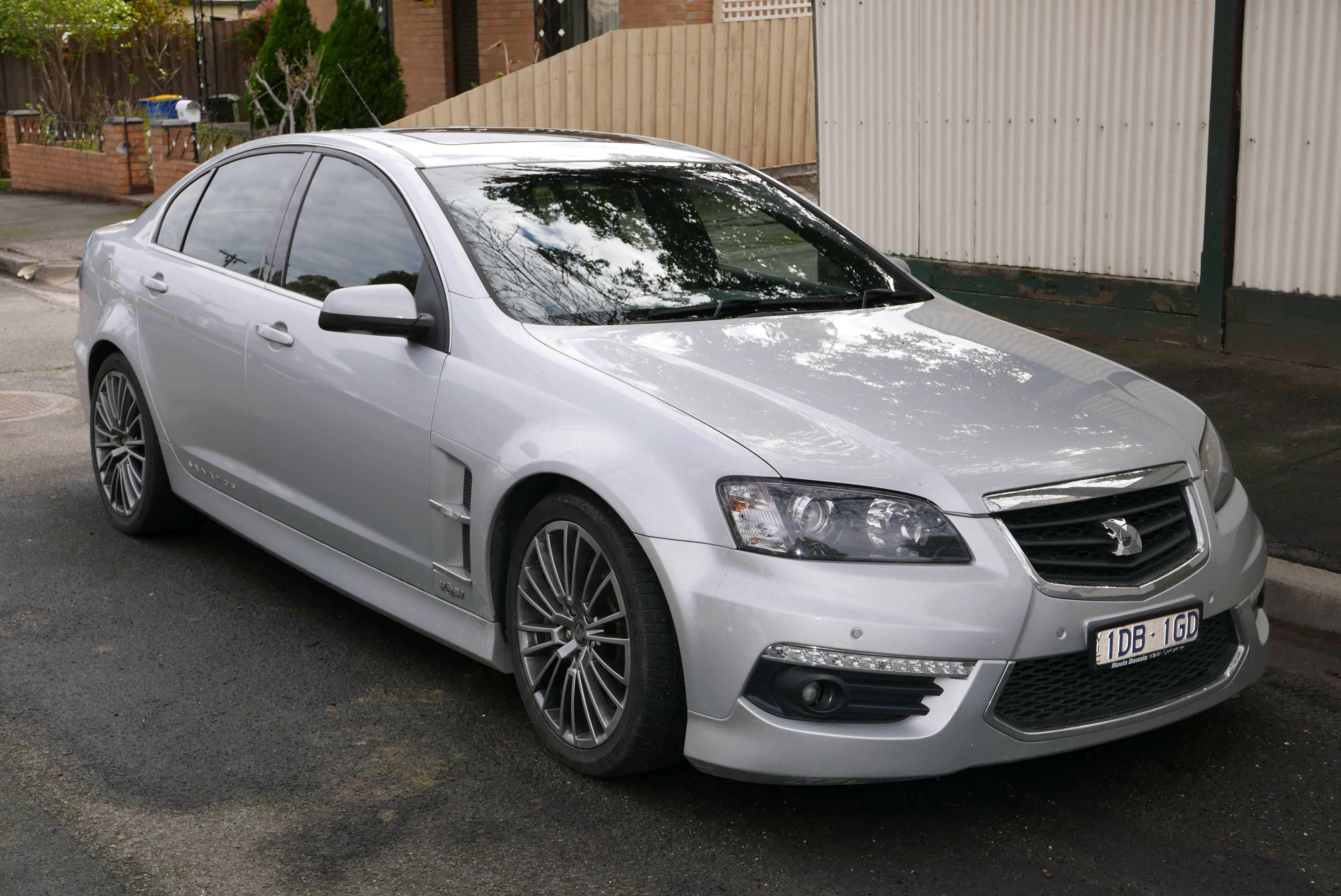 2010 HSV Senator (E Series 2 MY10) Signature sedan. Photographed in Hawthorn, Victoria, Australia. Vehicle registration enquiry resultsJurisdictionVictoriaRegistration1DB1GDChassis code6G1EX5EW9AL444484Engine codeAA7100130053Compliance date2010-03Year of manufacture2010